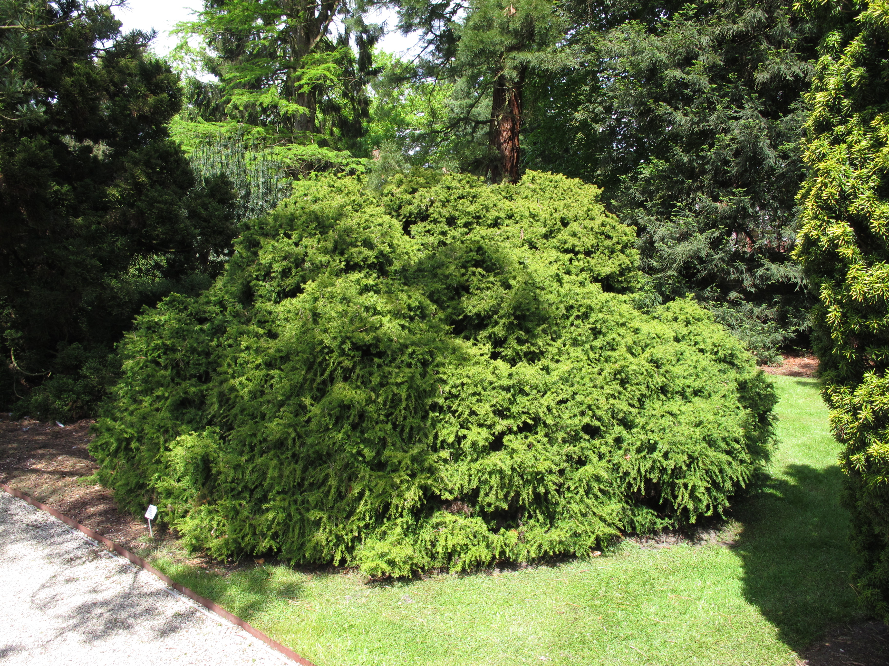 Cryptomeria japonica 'Monstrosa Nana' in Blijdenstein, Hilversum (NL). This plant is planted before 1930.